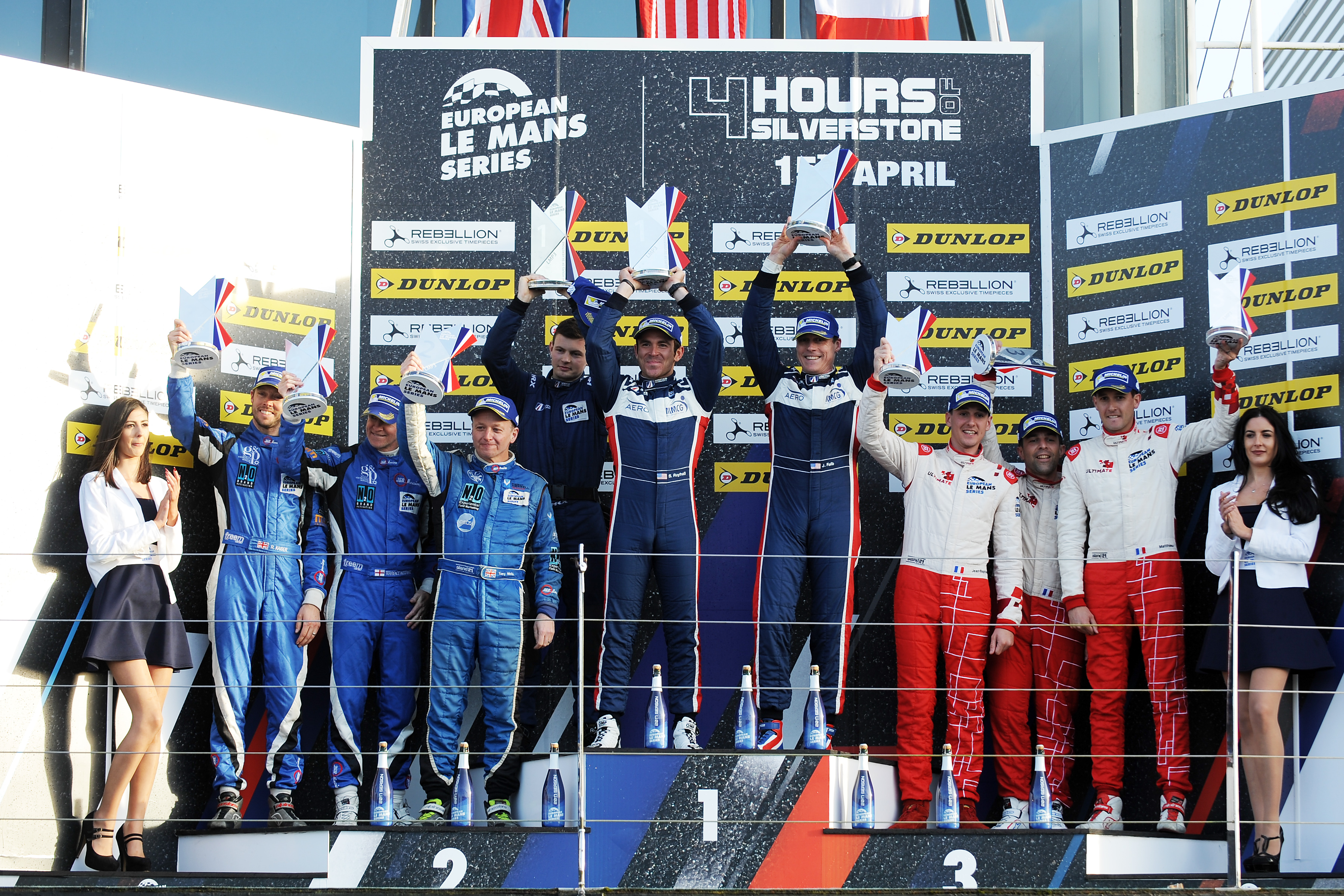 2017 4 Hours of Silverstone - LMP3 Podium